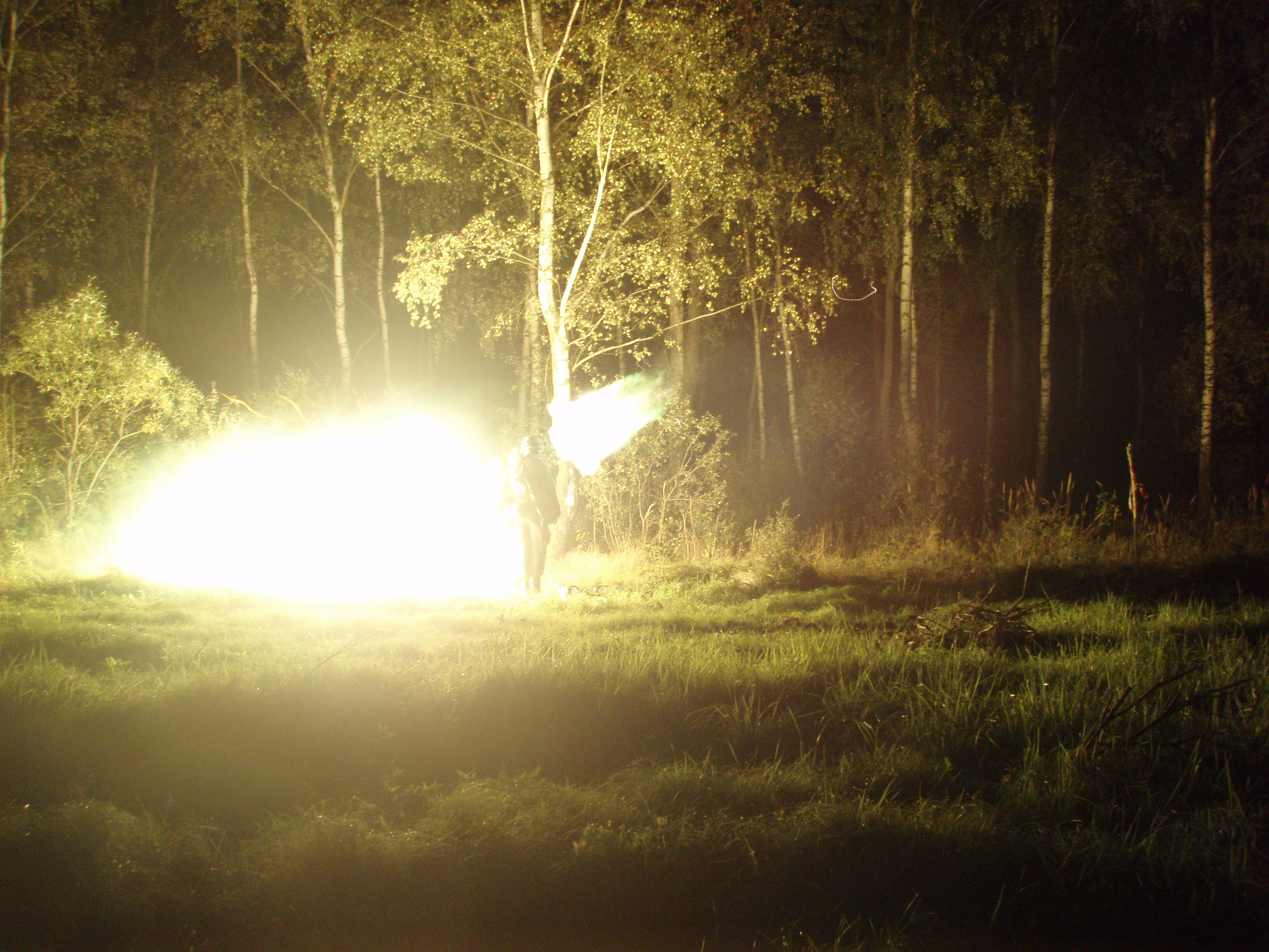 FFV Carl Gustaf, Muzzle flash